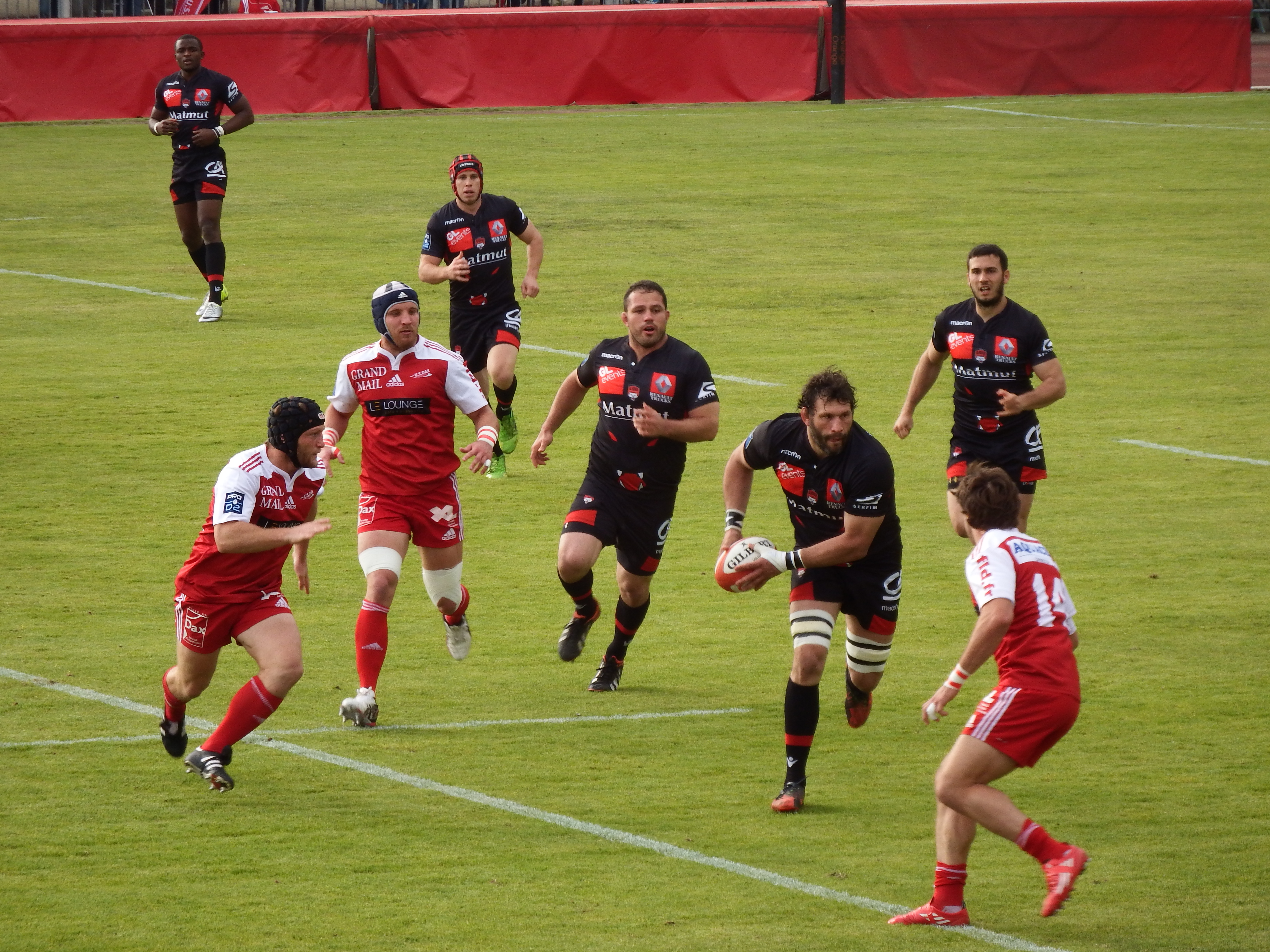 2013–14 Rugby Pro D2 season — 12 April 2014, stade Maurice-Boyau. Match between: US Dax — Lyon OU